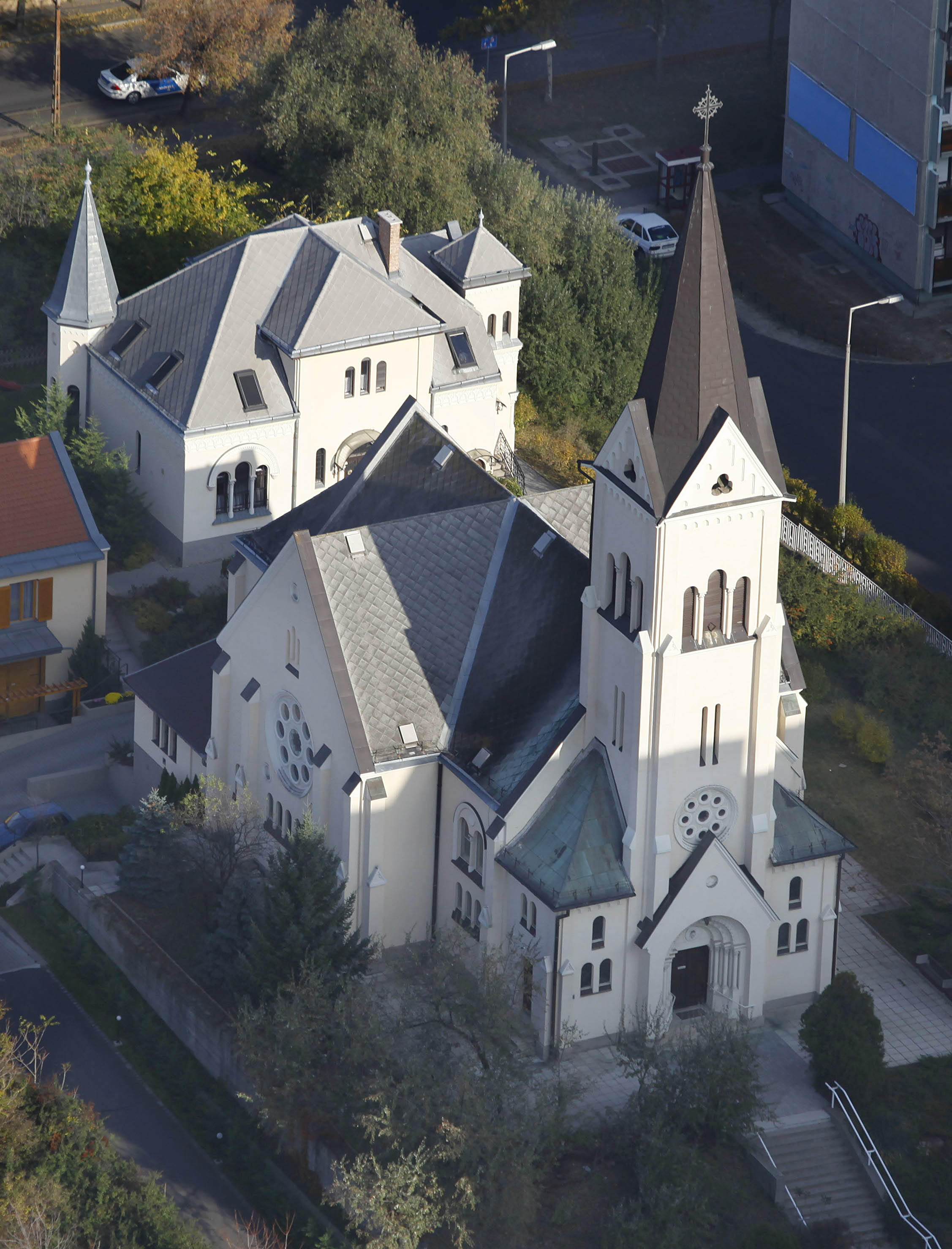 XX. District Budapest, Hungary, aerial photography, temple